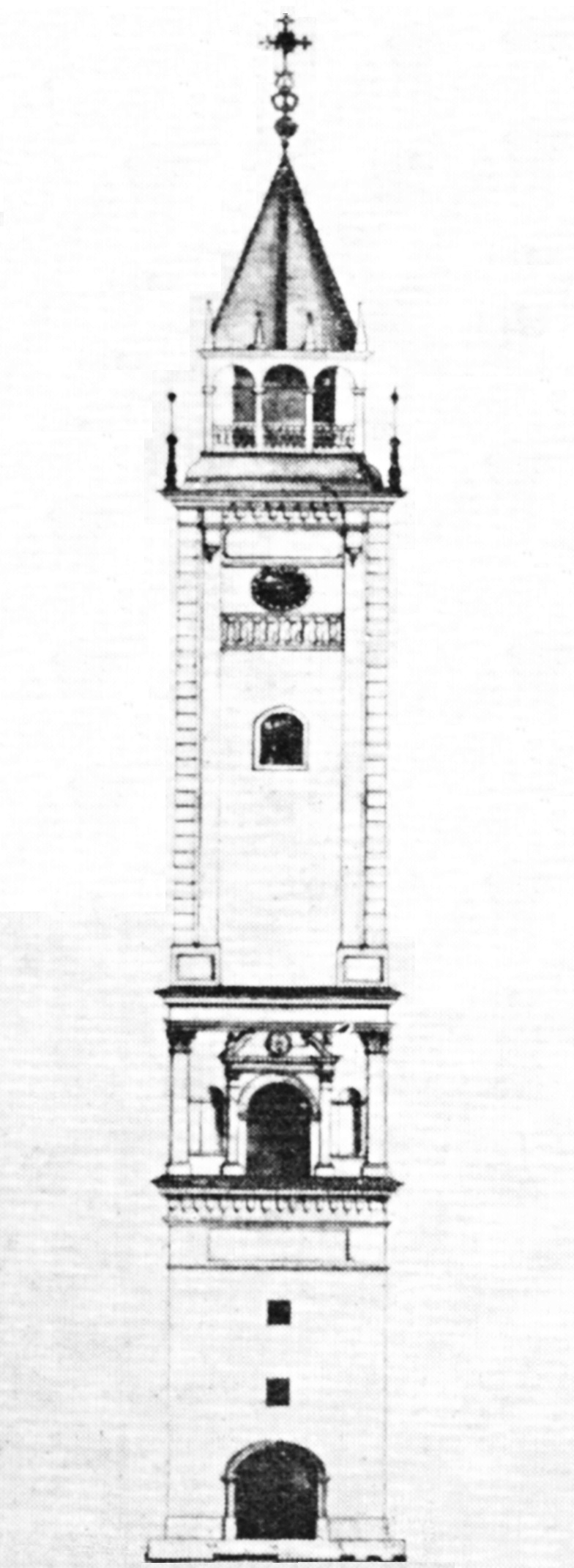 John III Sobieski Tower of St. John's Cathedral in Warsaw, over 70 m tall, built 1688-1692.